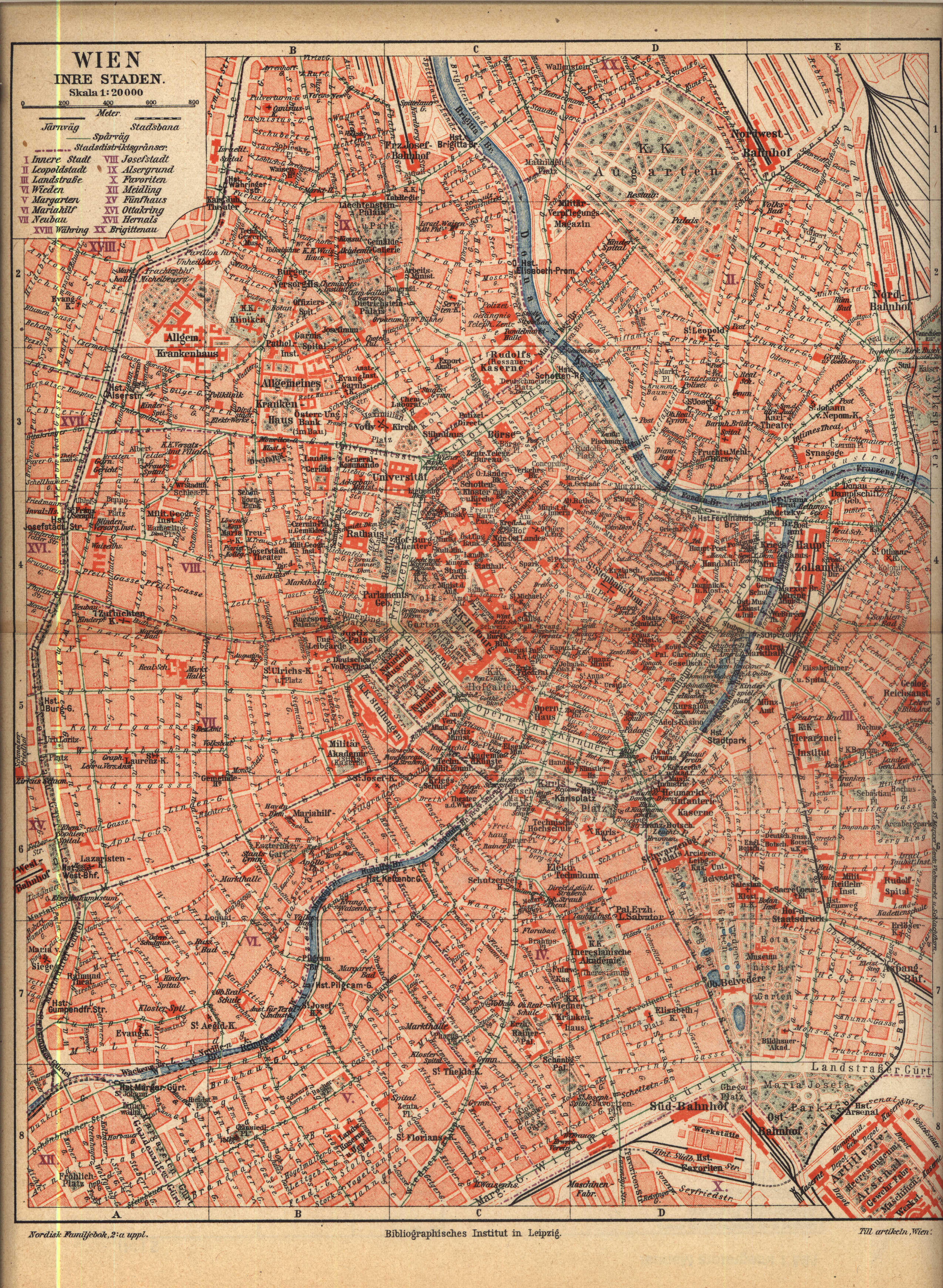 Map of Vienna during World War I (1914-18)